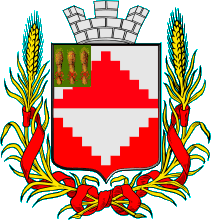 Coat of Arms of Gorodishe, 1861